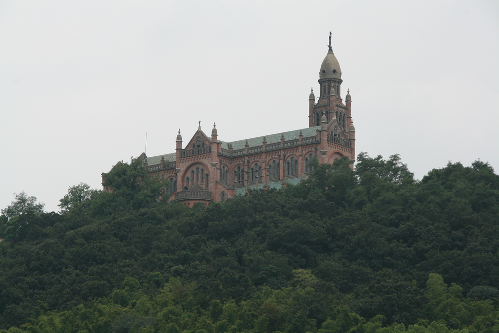 The She Shan Basilica in Shanghai, China